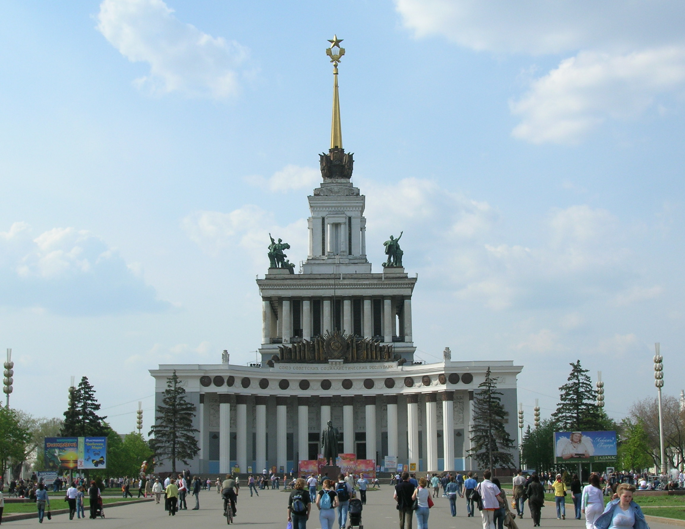 All-Russian Exhibition Center. Central pavillon. Moscow (Russia).